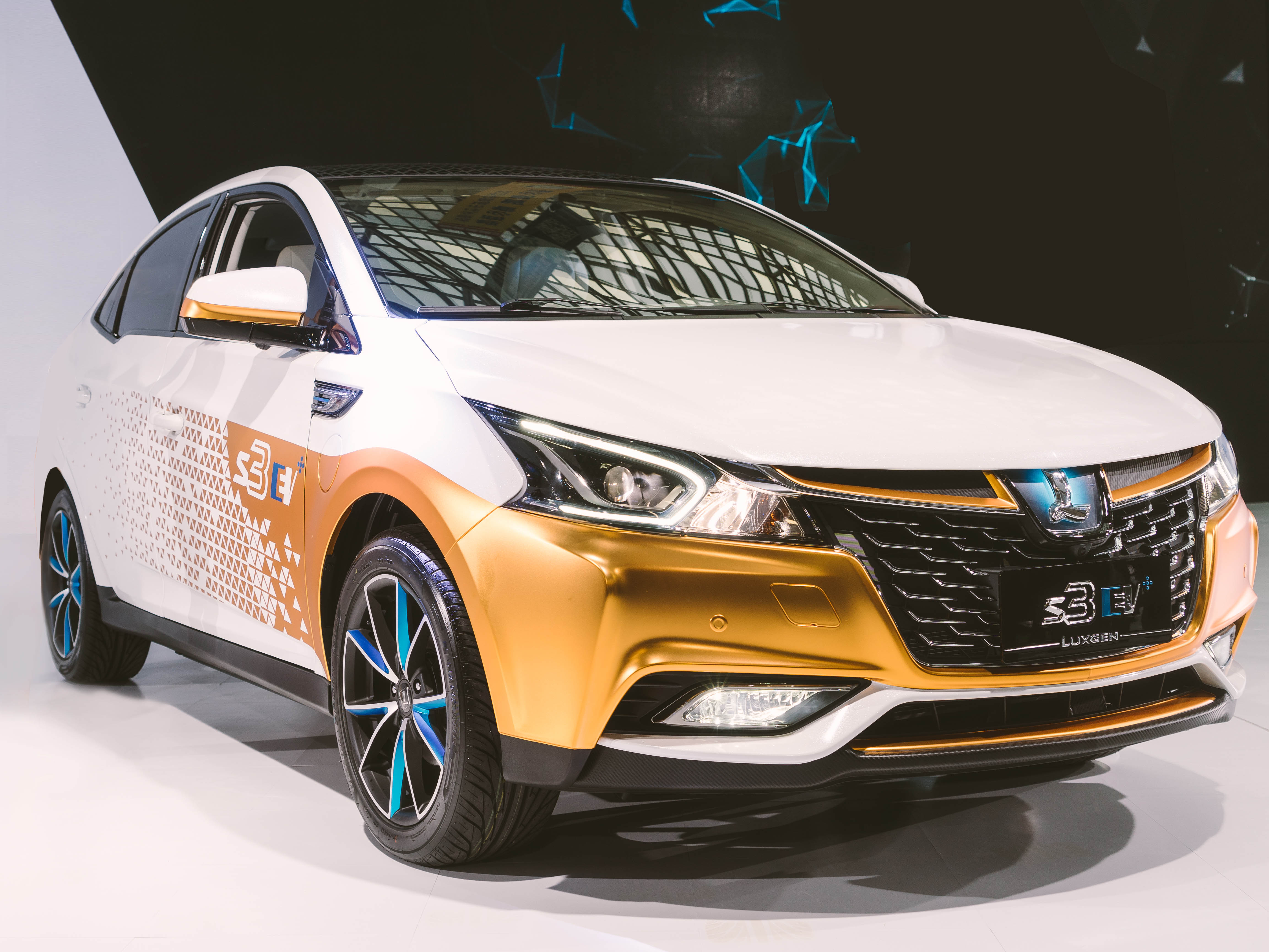 The Luxgen S3 EV+ concept shown at the 2016 Taipei Auto Show.